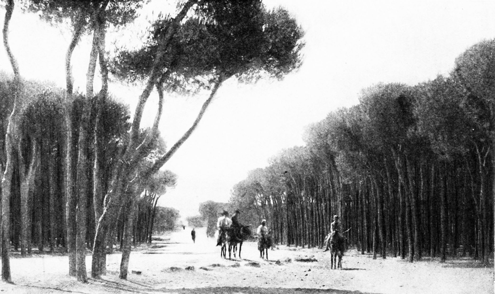 Among the pine groves of the Cape of Beirut